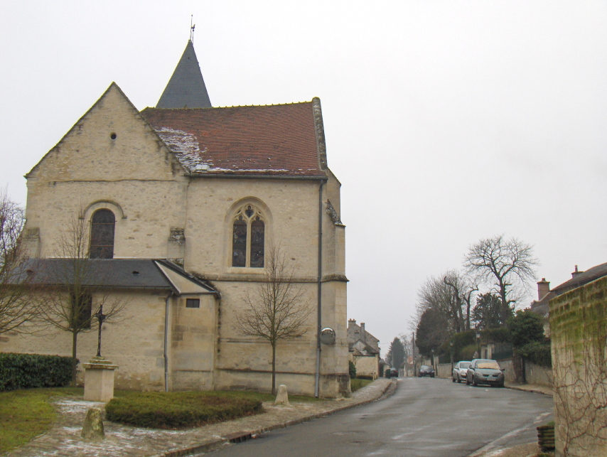 Rue Aristide Briand, Main street of Apremont, Oise France